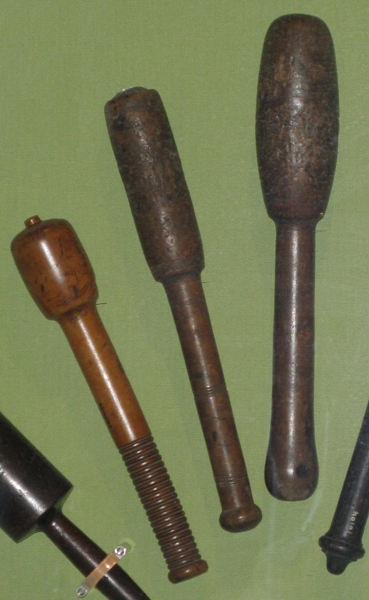 Three bloodsticks in the science museam london